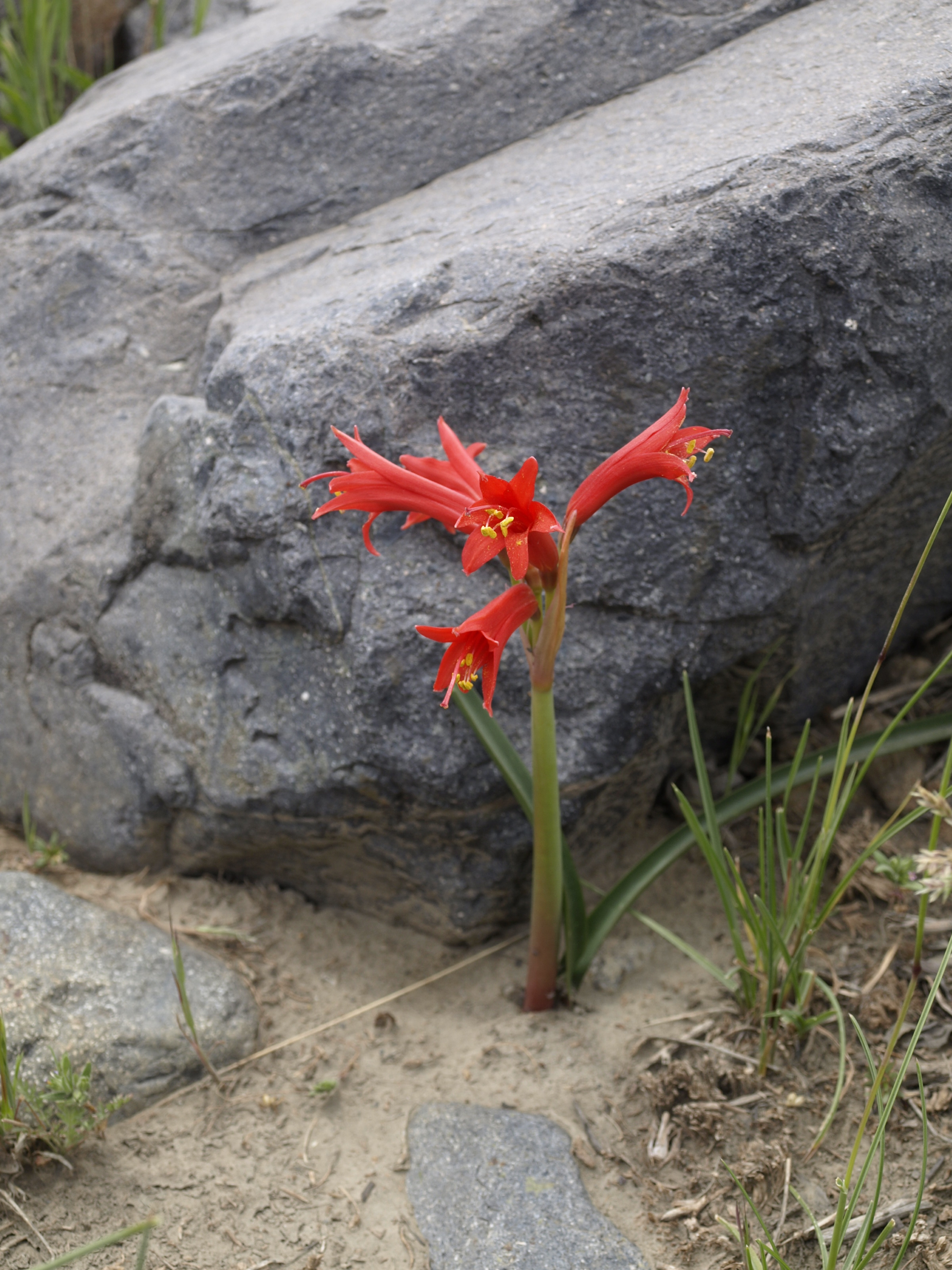 Embalse de Yeso, Chile. This was a real beauty - flashes of red scattered among rocks. I'm glad I saw it before the goats found it.